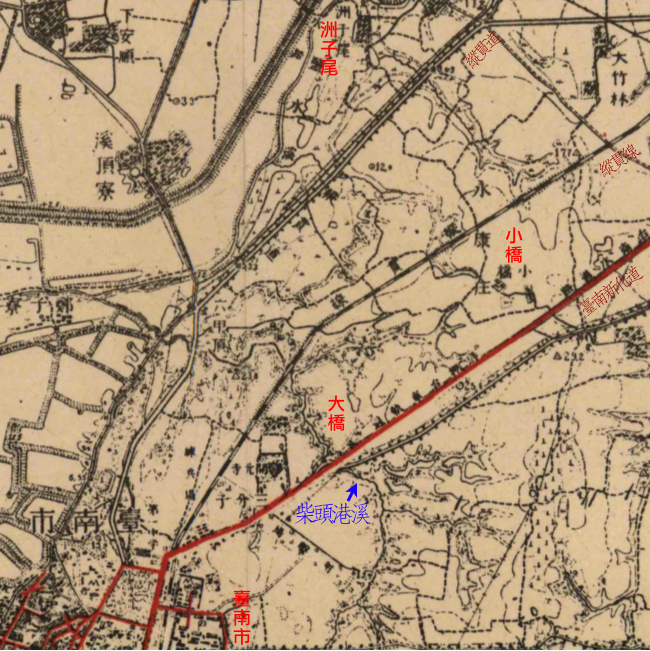 Part of "臺南、新化各水道位置圖"